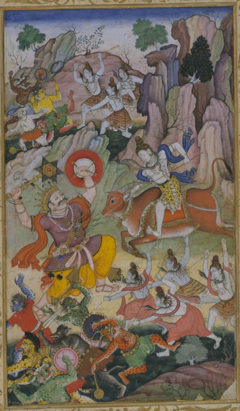 This illustration was originally in a Persian manuscript of harivamsa , an appendix of Razmnama recounting the life of the Hindu god, Lord Krishna. The Persian translation of the Sanskrit text was made by order of the Mughal emperor Akbar, and the painting probably dates to c. 1590. The manuscript was broken up at an unknown date, and this page is one of a group that were given ornate borders for inclusion in an album, probably in Lucknow in the 18th century. This painting depicts Shiva, the divine yogi who shares with Vishnu a supreme role among the gods of Hinduism. A demon called Andhaka had stolen a flowering creeper from a garden created by Shiva, who follows him and decapitates him.